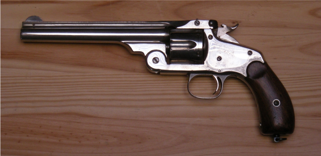 S & W 3rd New Model